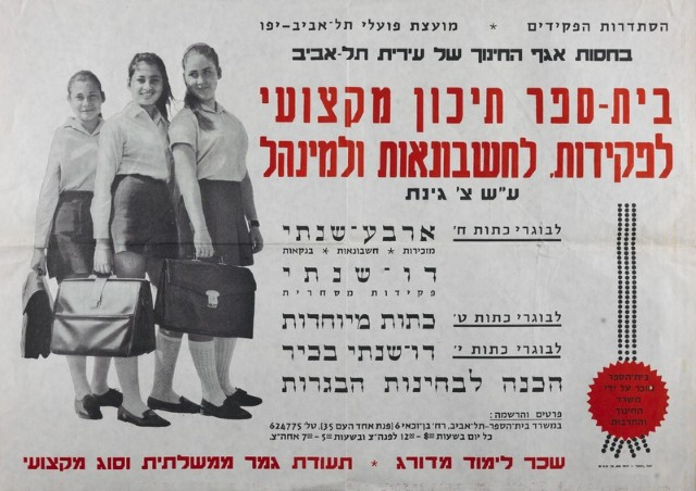 Vocational school poster